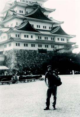 Photograph of mathematician Robert W. Brooks